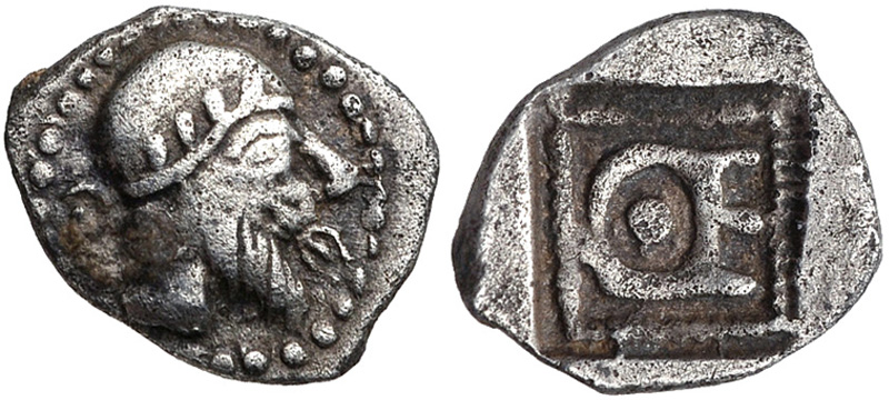 IONIA, Magnesia ad Maeandrum. Themistokles. Circa 465-459 BCE